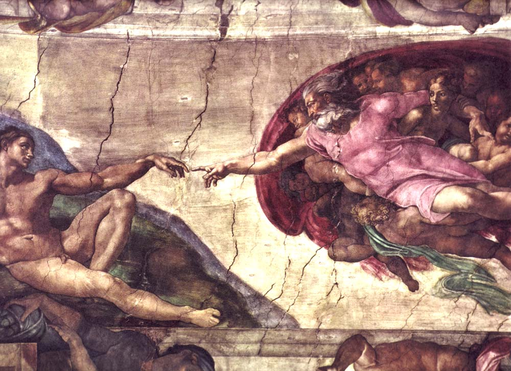 Fresco BEFORE the restoration of the Ceiling